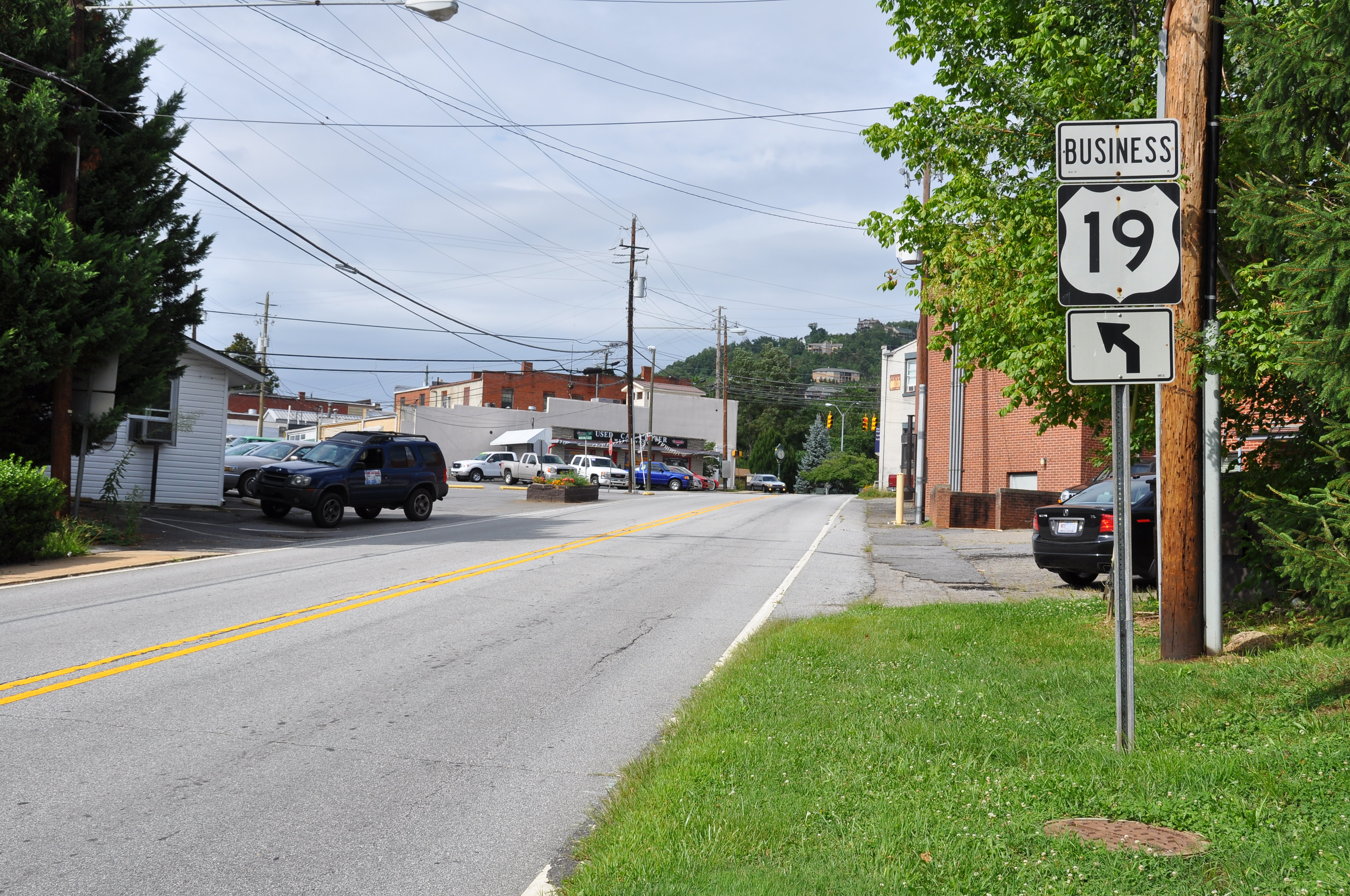 U.S. Route 19 Business taking a slight left turn in downtown Weaverville, North Carolina.